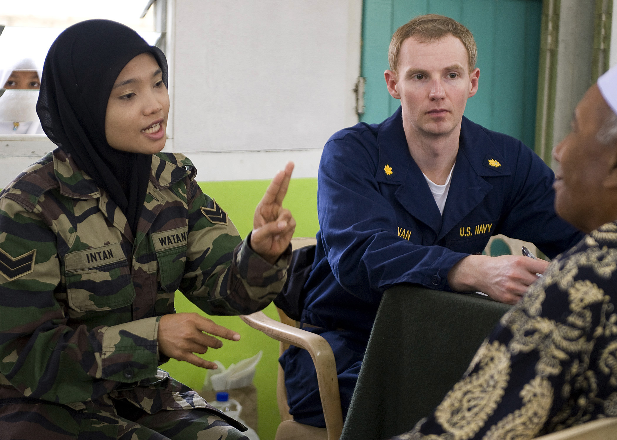 KUANTAN, Malaysia (June 24, 2009) U.S. Navy doctor Lt. Cmdr. Scott Bannan and Malaysian Army Cpl. Intan Badri screen a patient during a Cooperation Afloat Readiness and Training (CARAT) Malaysia 2009 medical civil action project at Seberan Tayor Primary School in Kuantan, Malaysia. CARAT is a series of bilateral exercises held annually in Southeast Asia to strengthen relationships and enhance the operational readiness of the participating forces. (U.S. Navy photo by Mass Communication Specialist 1st Class Michael Moriatis/Released)